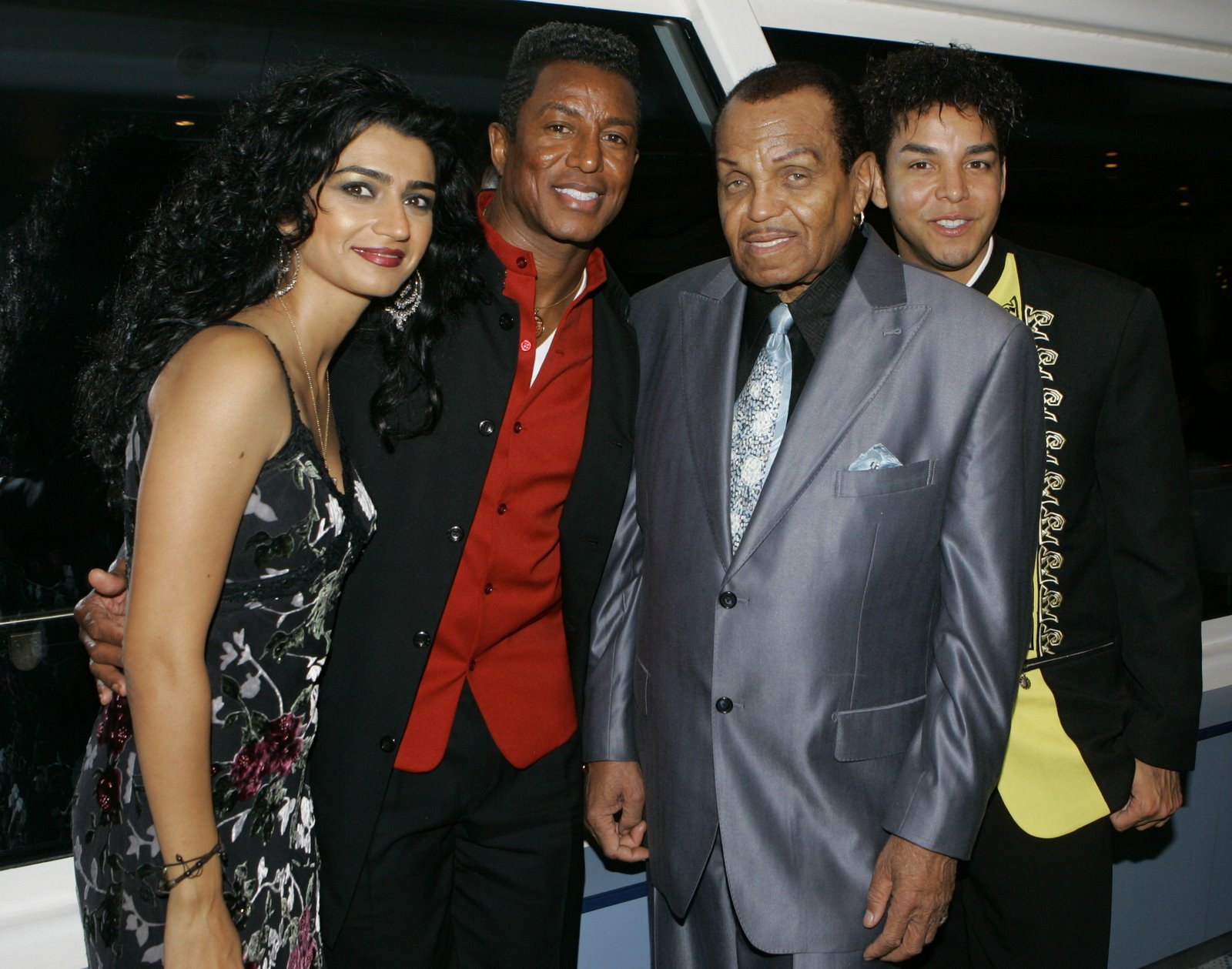 Halima Rashid, Jermaine Jackson, Joseph Jackson & Taj Jackson in 2007. Copyright - some rights reserved to Reflexivity Capital Group